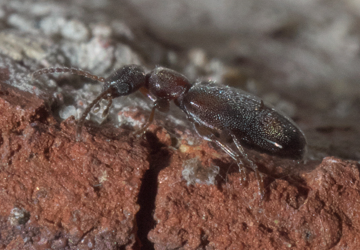 Anthicus cervinus, Family: Antlike Flower Beetles, Size: 3.2 mm, ID Confidence: 98